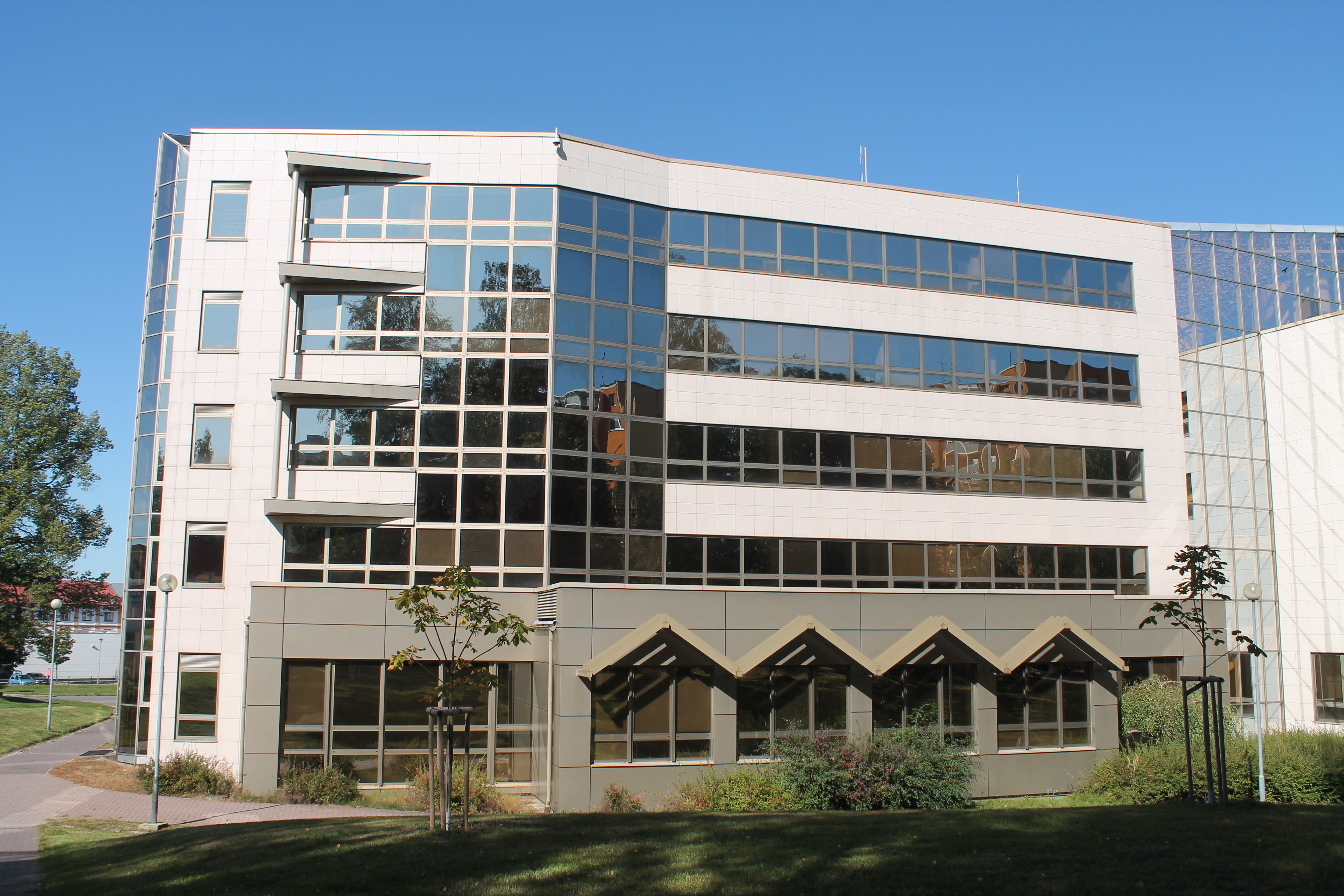 District court, Žďár nad Sázavou, Žďár nad Sázavou District, Czech Republic